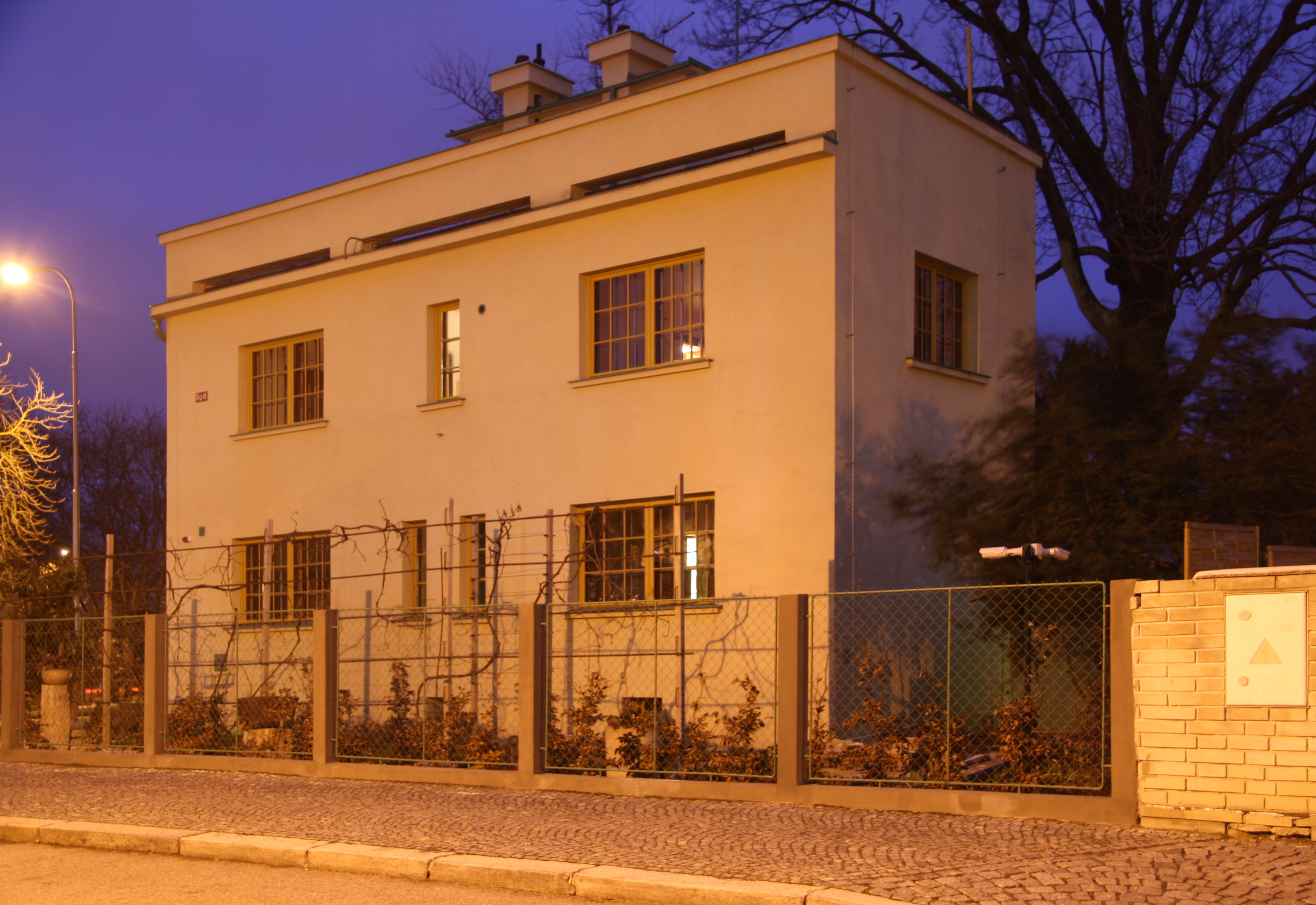 Rothmayer villa in evening.